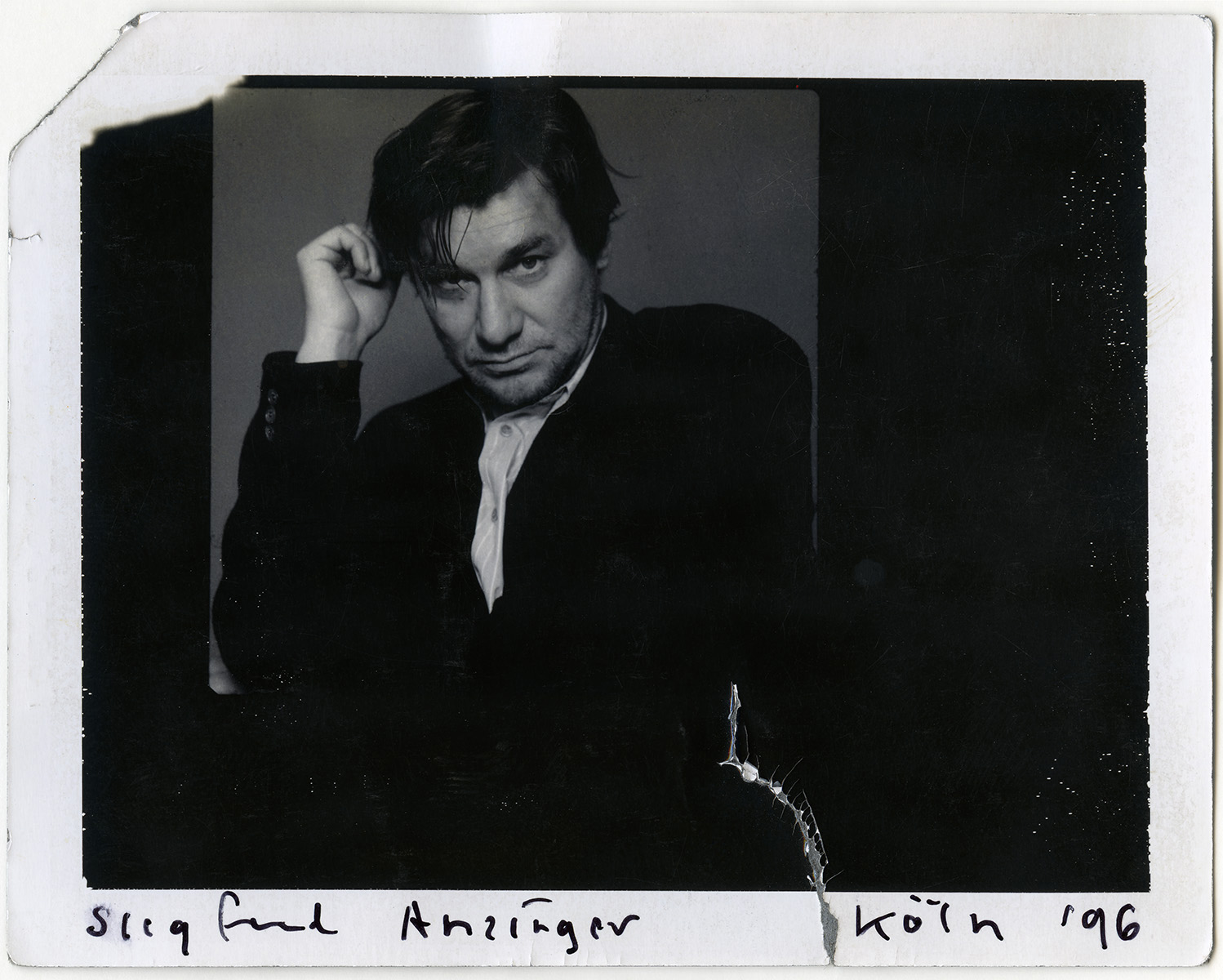 Siegfried Anzinger portrayed von Oliver Mark, Cologne 1996